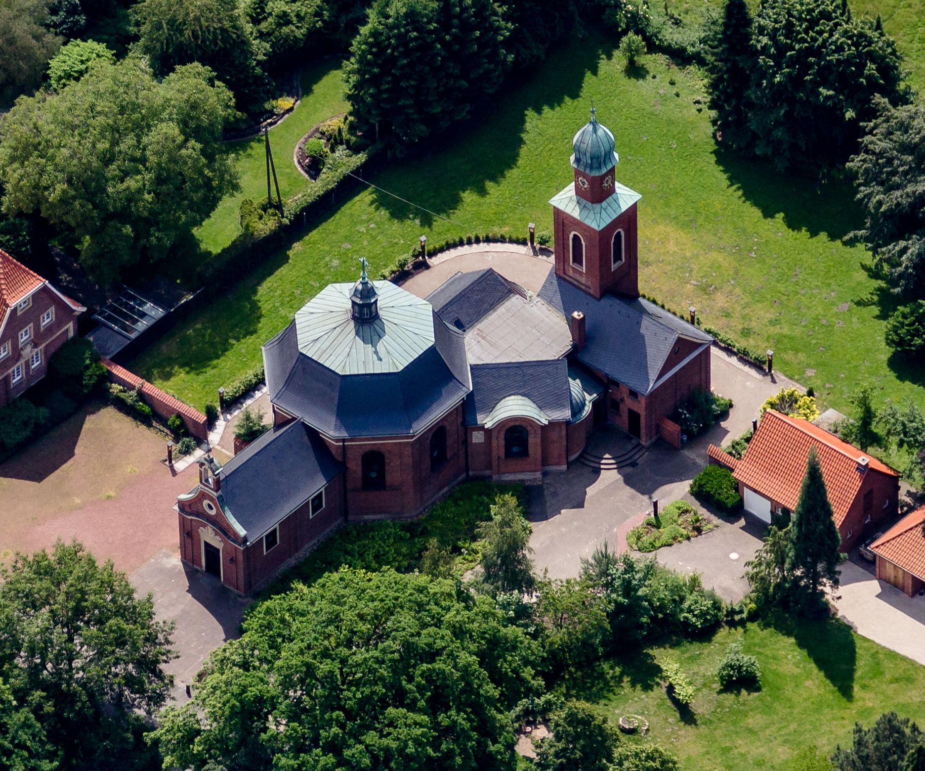 Dyckburg-Kirche, Münster, North Rhine-Westphalia, Germany